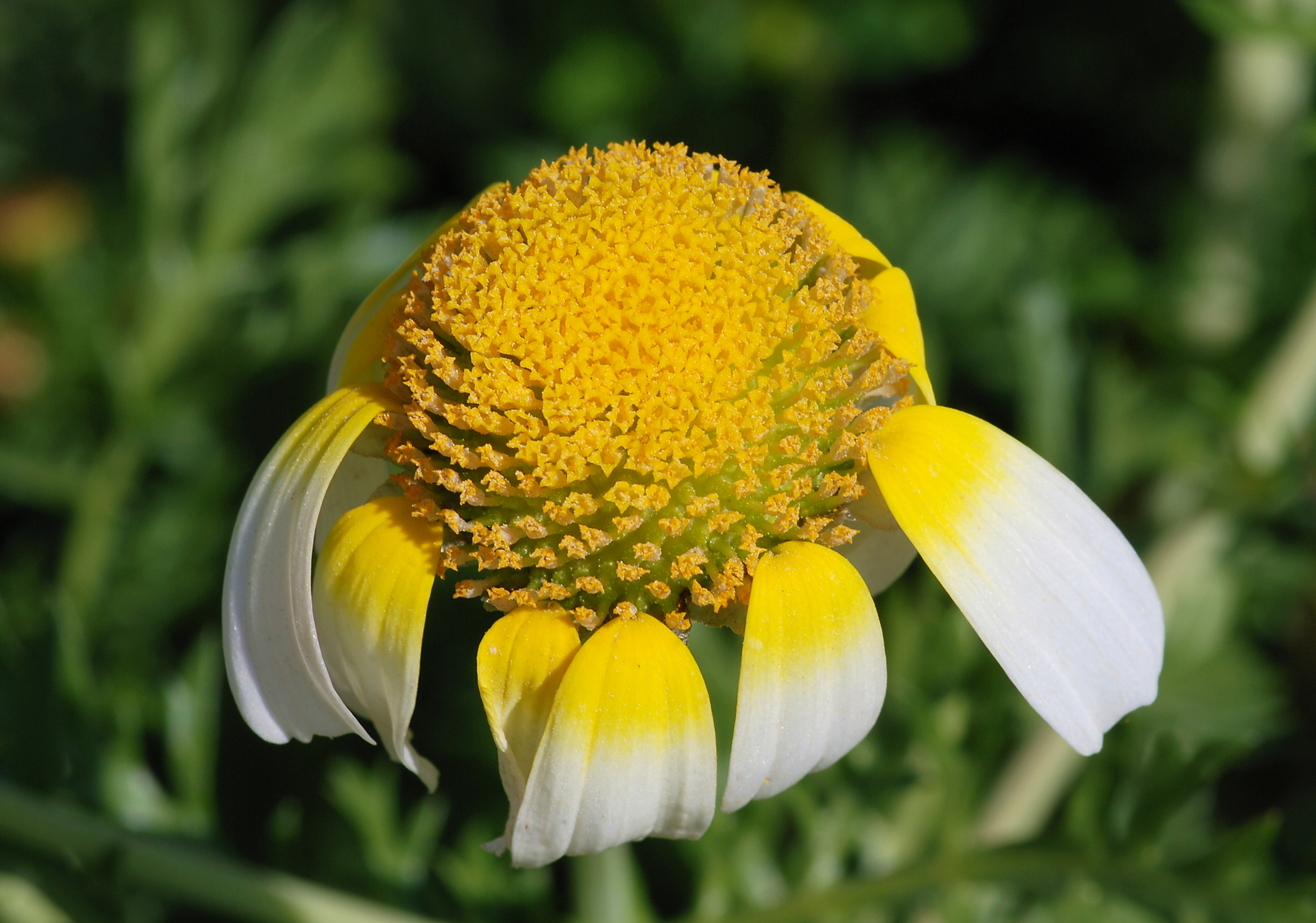 Inflorescence of a Crown Daisy (Glebionis coronaria) showing the two types of florets.